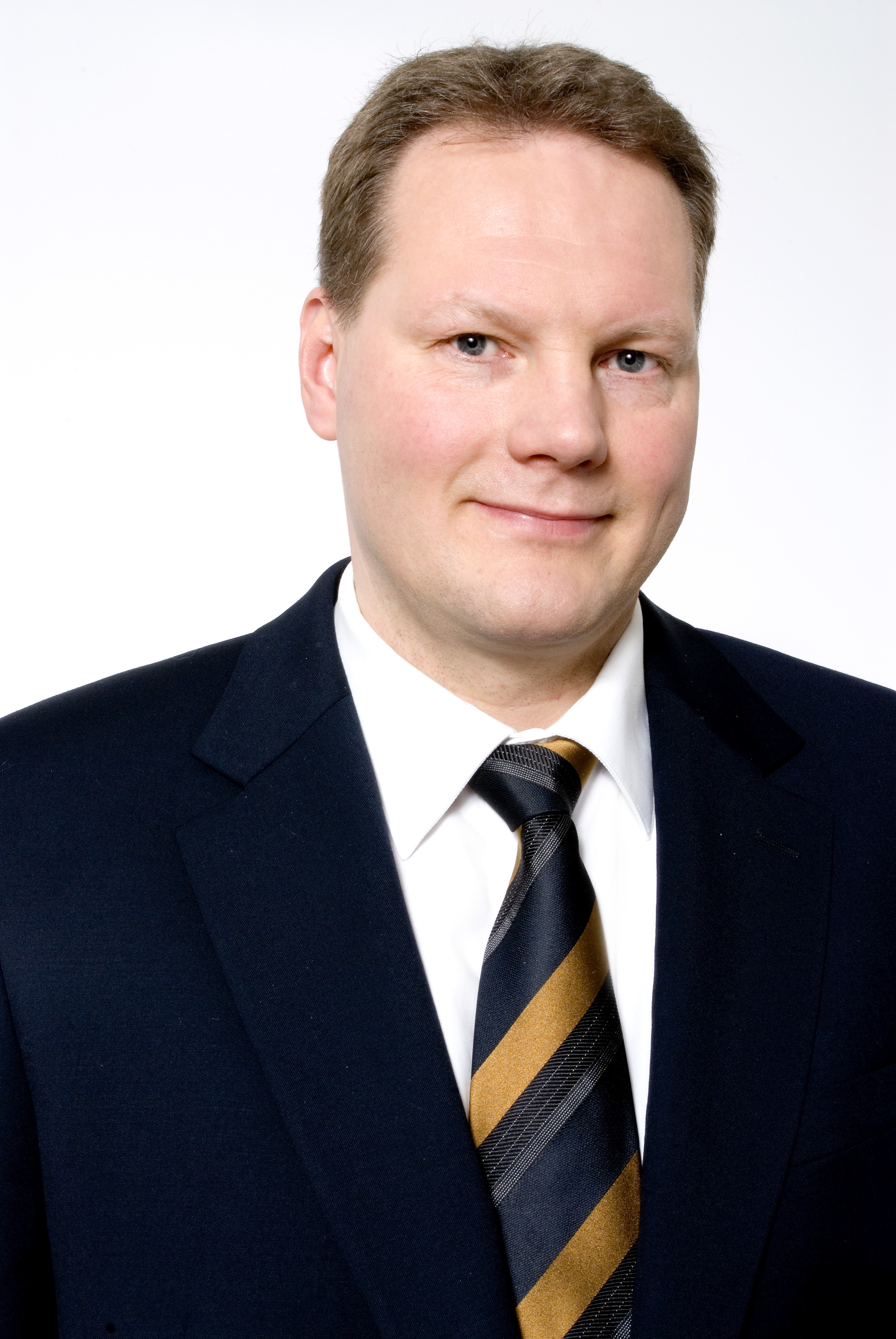 Former Swedish icehockey player and current colour commentator Arto Blomsten.